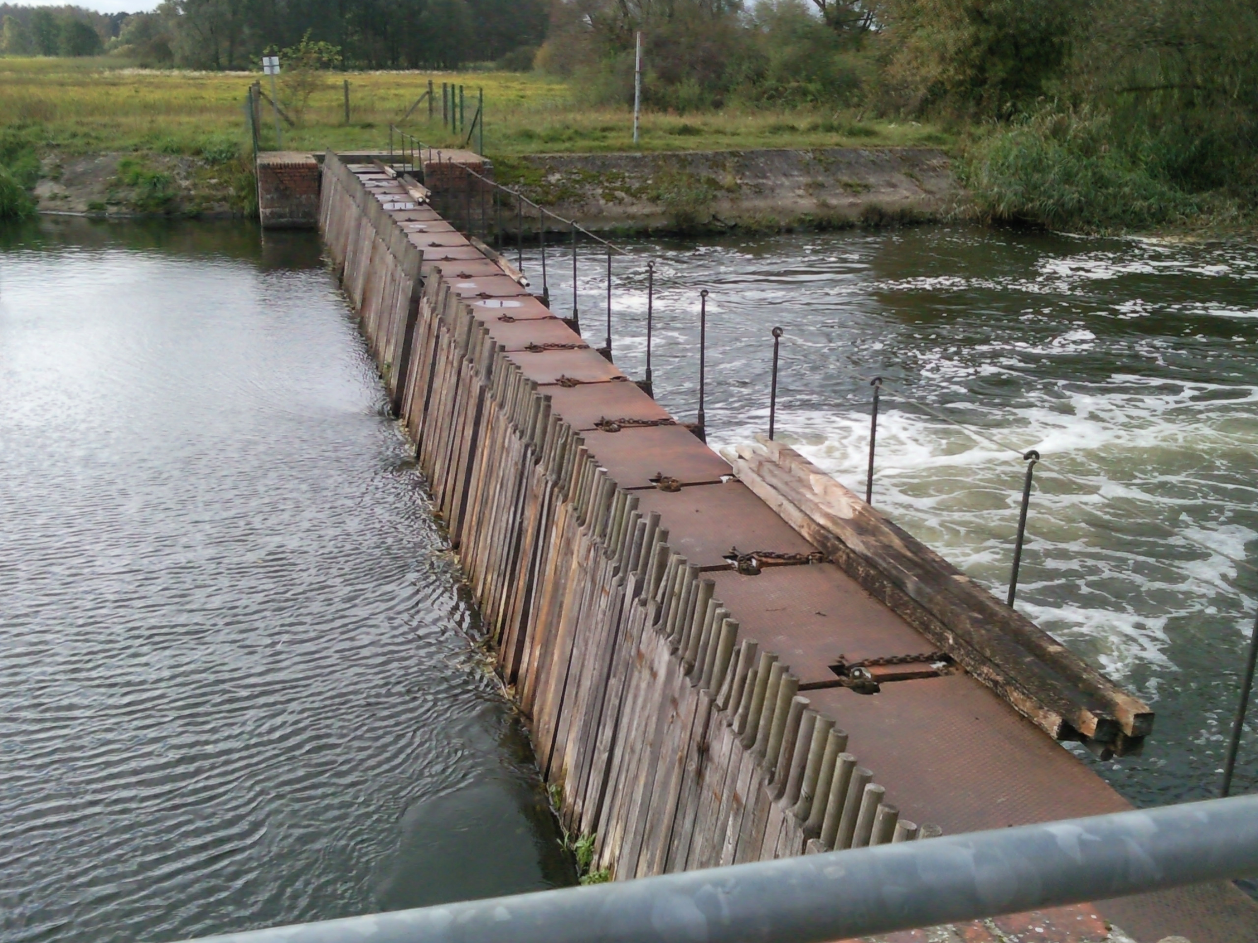 Needle dam, Neubruck (Spree) in Germany (Brandenburg)